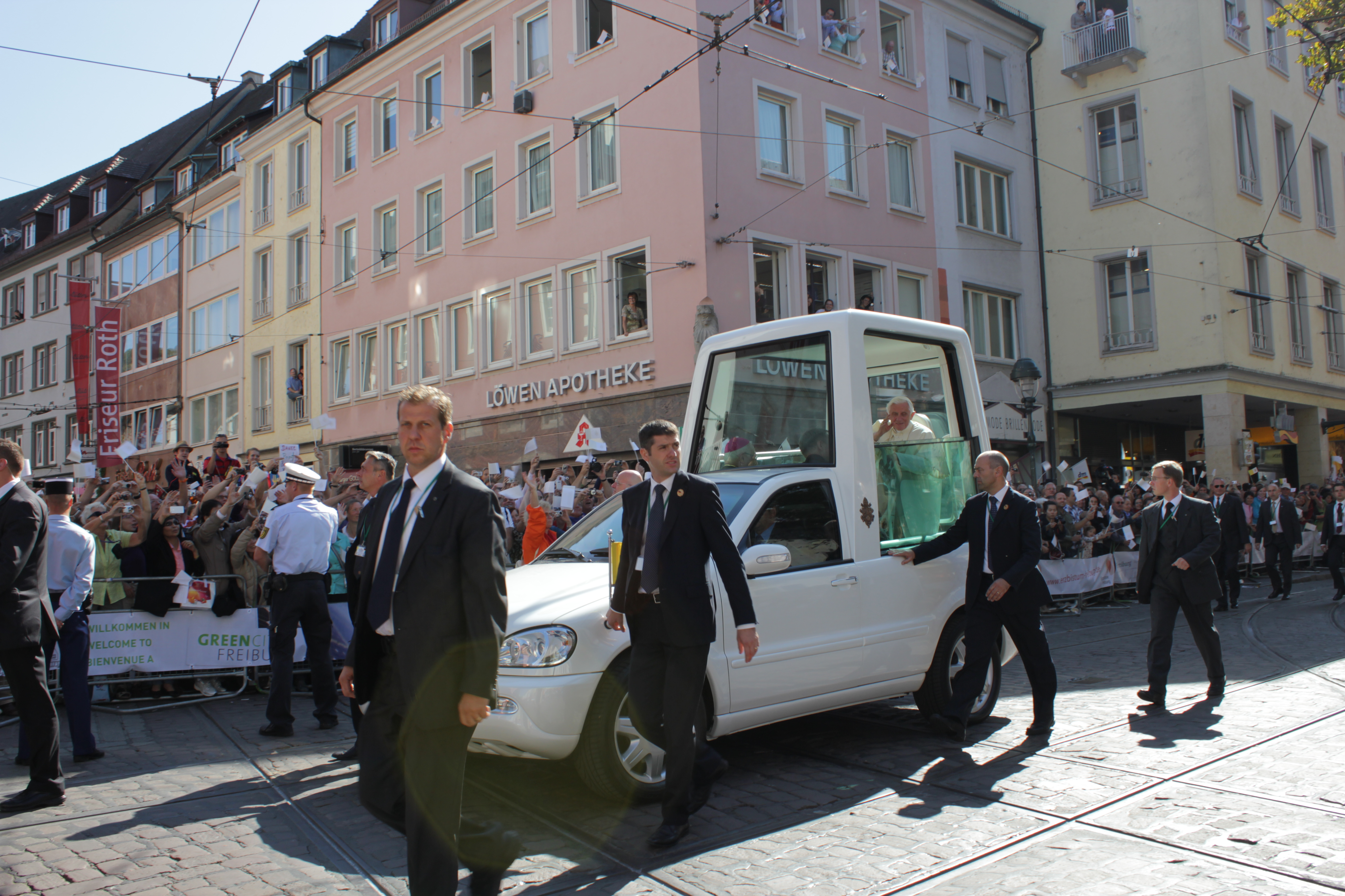 Pope Benedict XVI in papamobile in Freiburg (Breisgau) Germany 2011